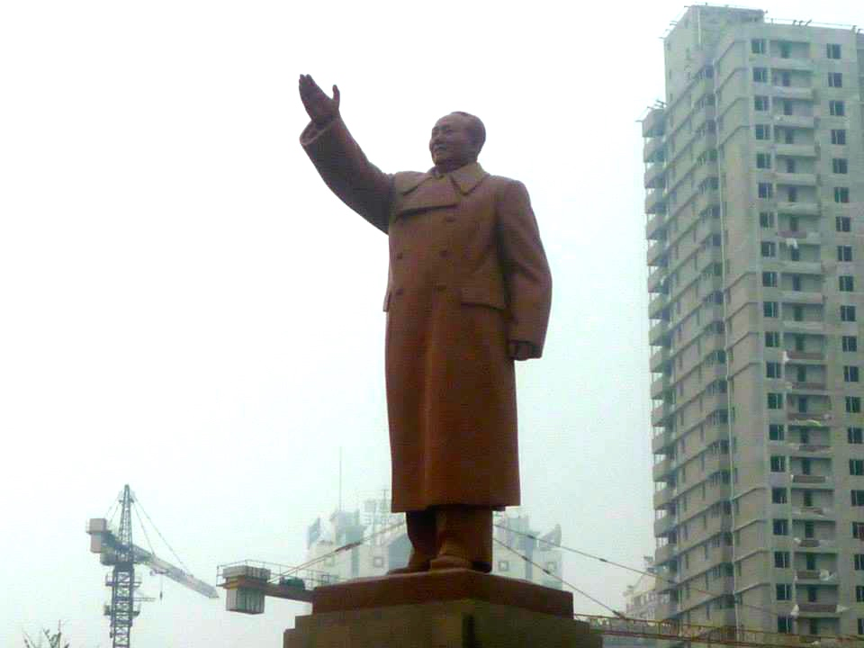 The statue of Mao Zedong located outside of the railway station in Dandong, China